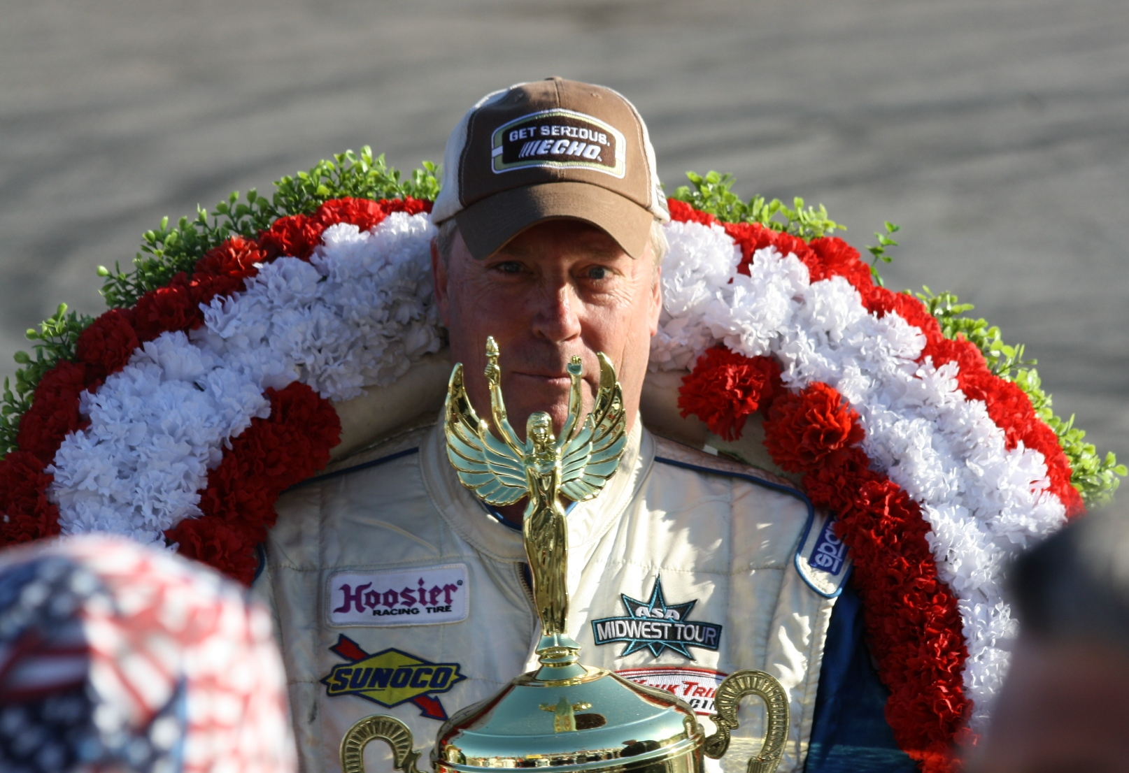 ASA Midwest Tour winner Steve Carlson after winning the National Short Track Championship race at Rockford Speedway. Carlson won the 2007 NASCAR Weekly Series national championship.